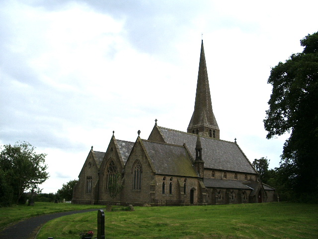 Christ Church parish church, Healey, Rochdale, Greater Manchester (formerly Lancashire)